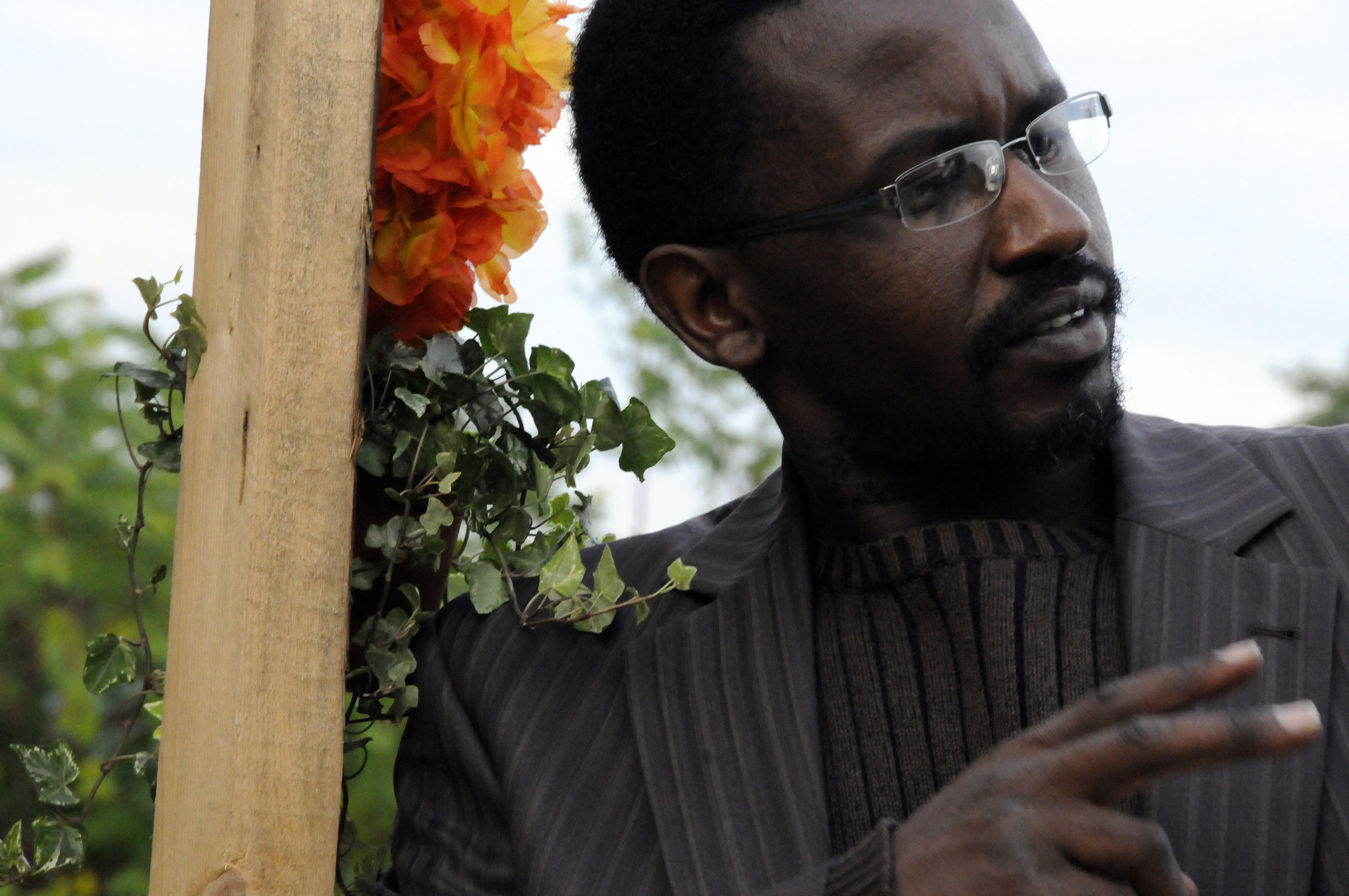 A Tutsi immigrant in Berlin, Germany.